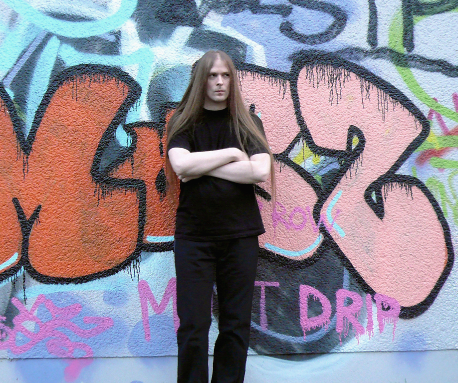 Alex Ney, bandleader of Taxim (